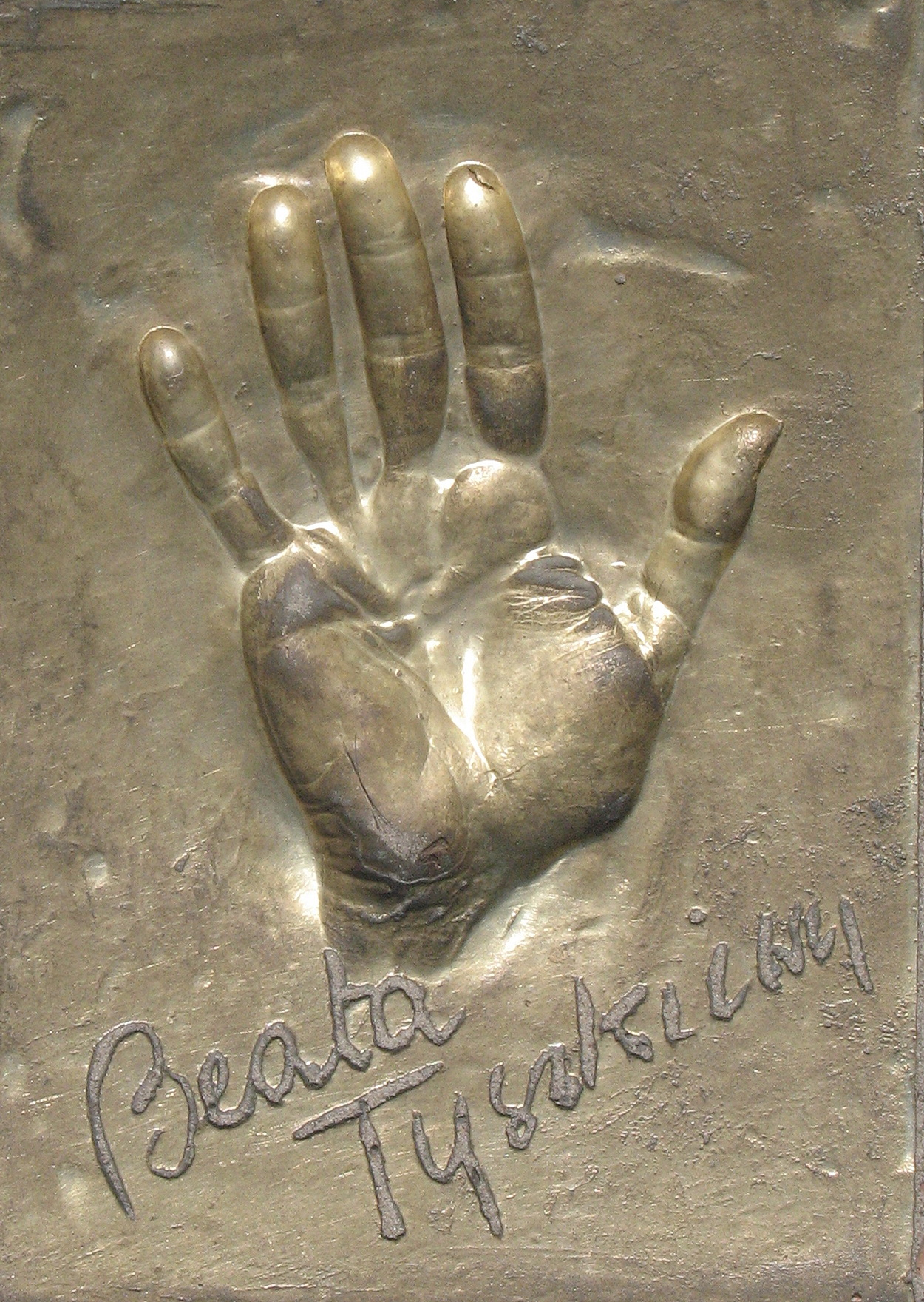 Beata Tyszkiewicz - handprint and signature in Międzyzdroje